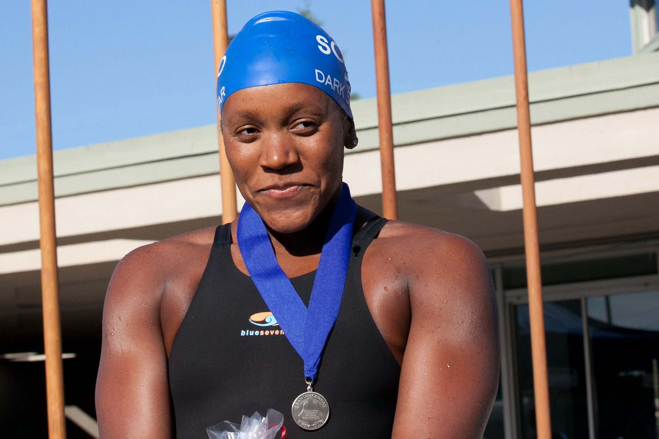 Photo from 2012 Santa Clara Grand Prix. Contact JD Lasica for publication rights at .